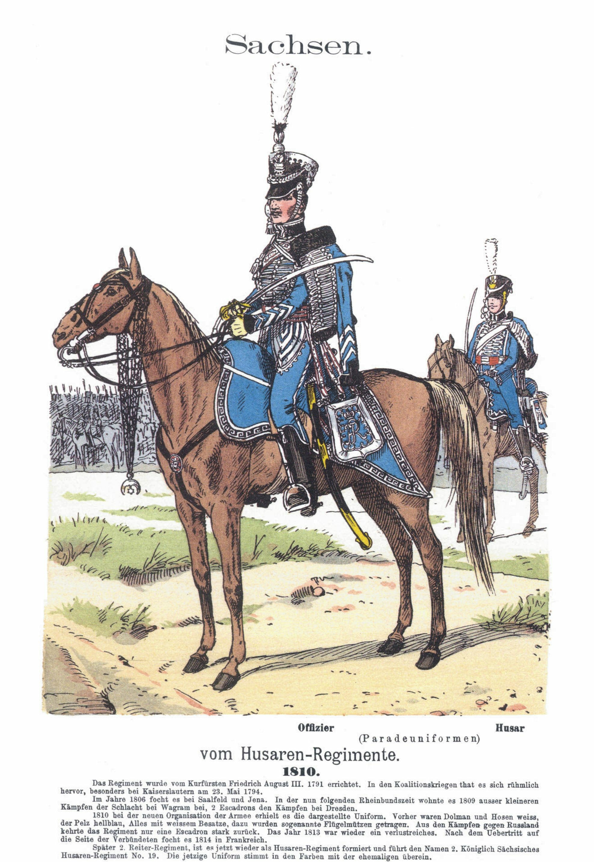 Sachsen. Husaren-Regiment. 1810